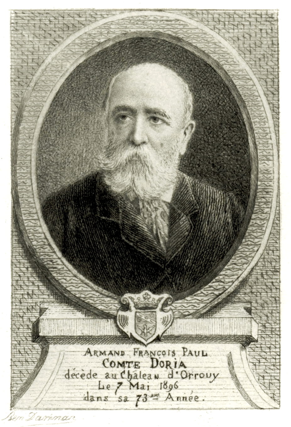 Engraving of le Comte Armand Doria, published originally in Collection de M. le Comte Armand Doria, tome premier; Catalogue de Tableaux Modernes, a catalog published for a sale of said art works in Paris in 1899.